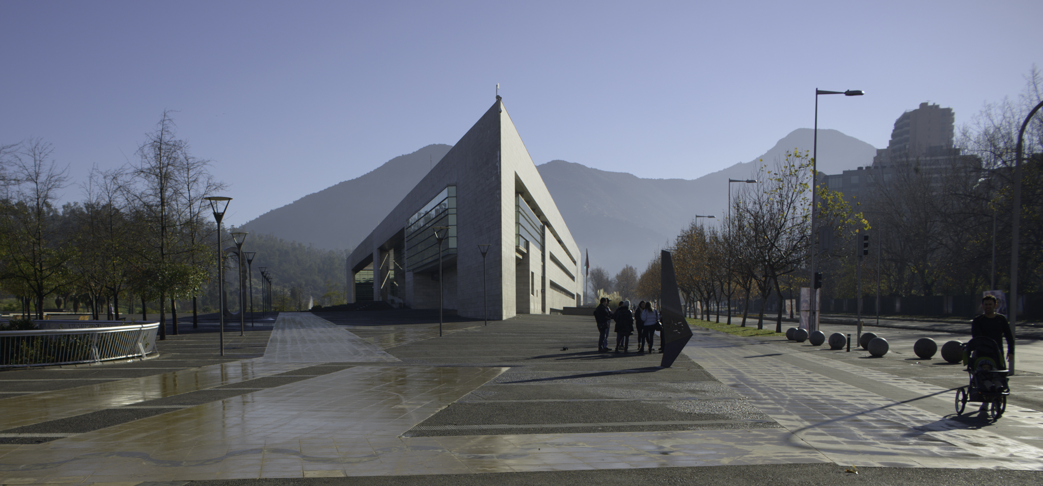 Municipalidad de Vitacura, Santiago de Chile